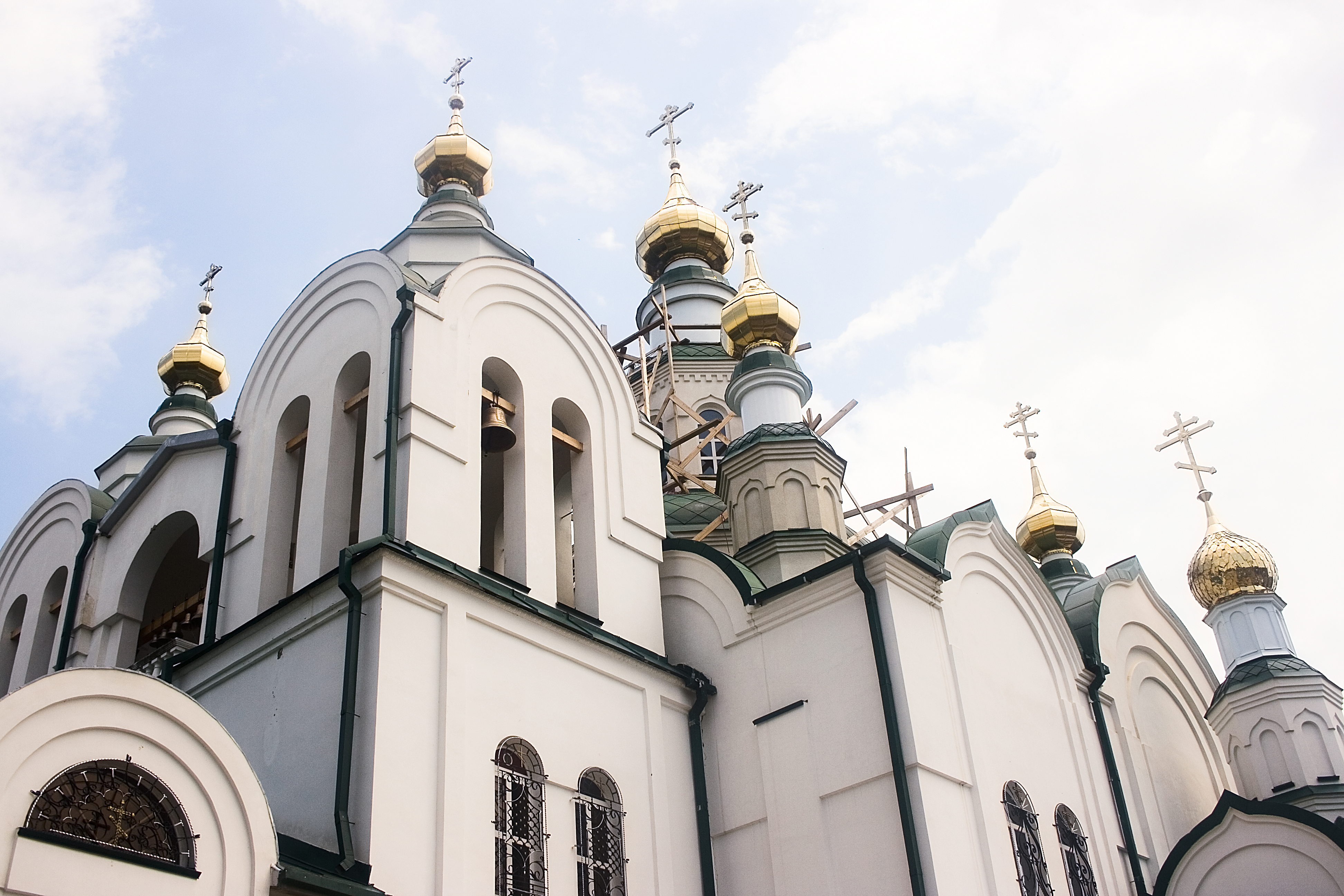 Армавир 2011 (0005).jpg